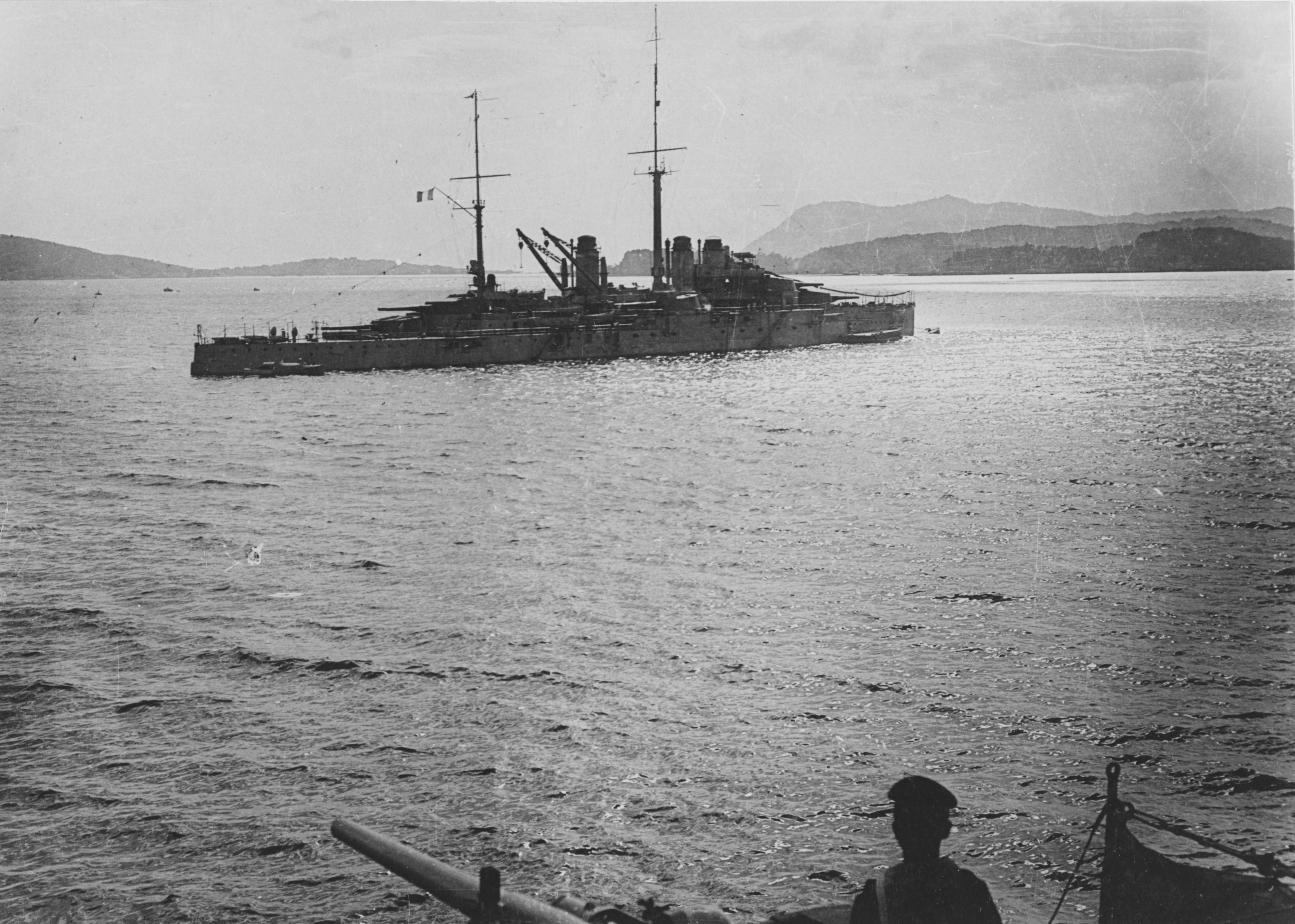 French battleship France